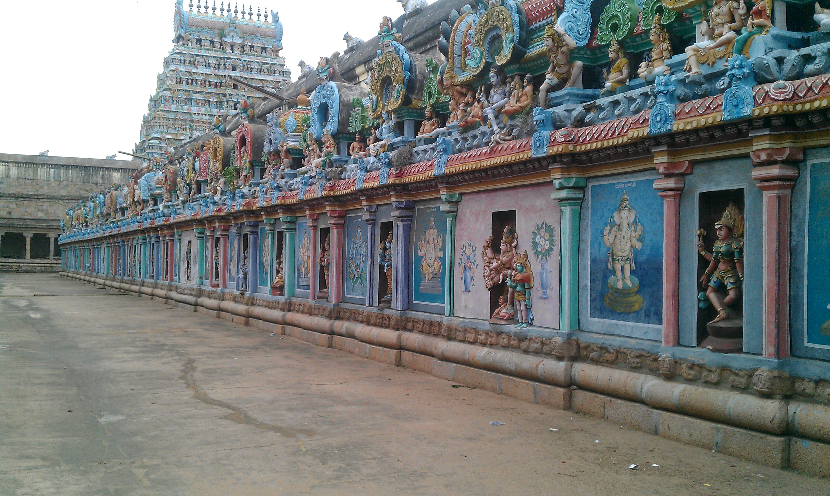 Tiruvidaimaruthur1